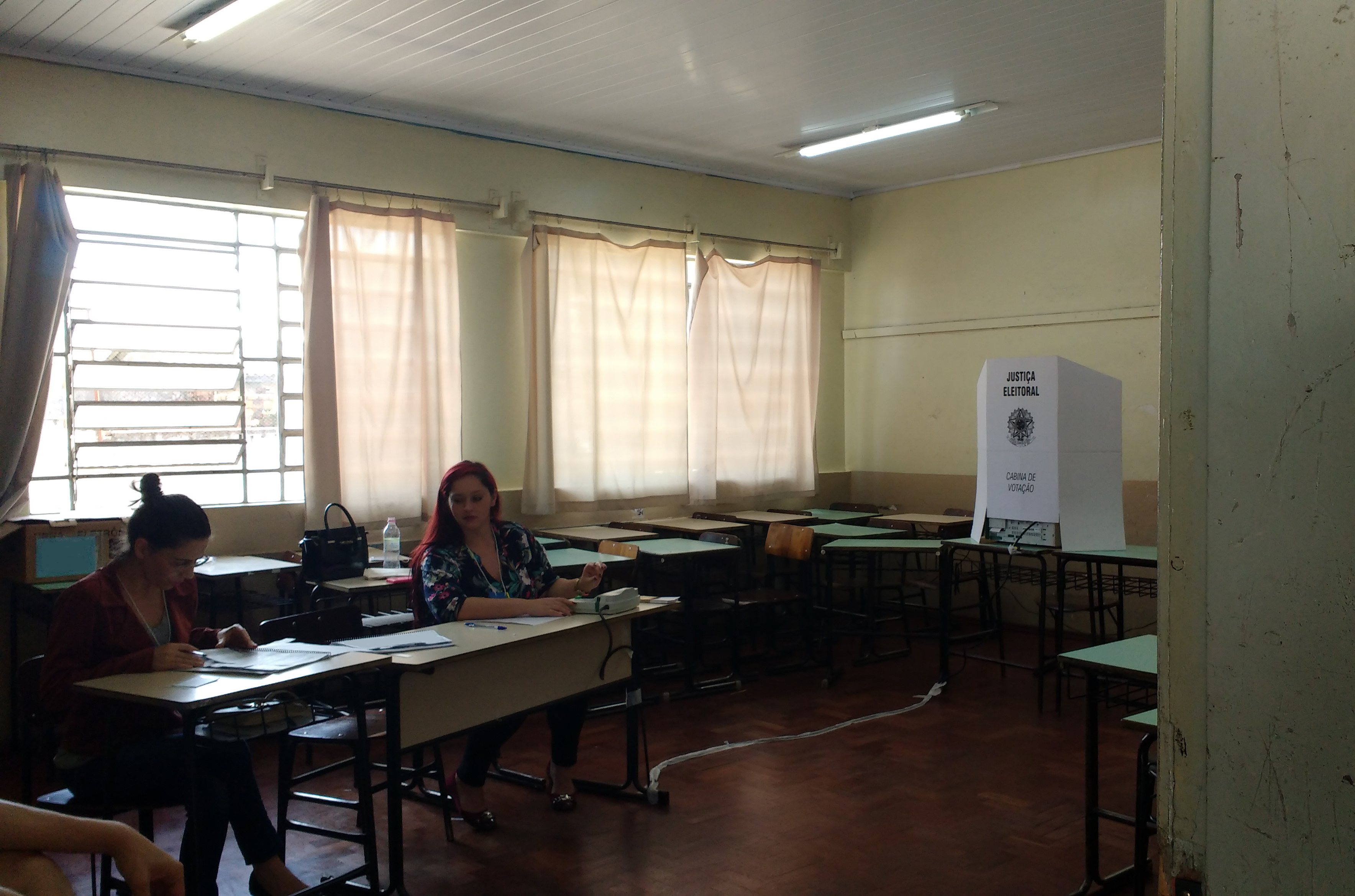 Vote section in Santa Maria, Rio Grande do Sul, for the second round of the Brazilian general election of 2018.